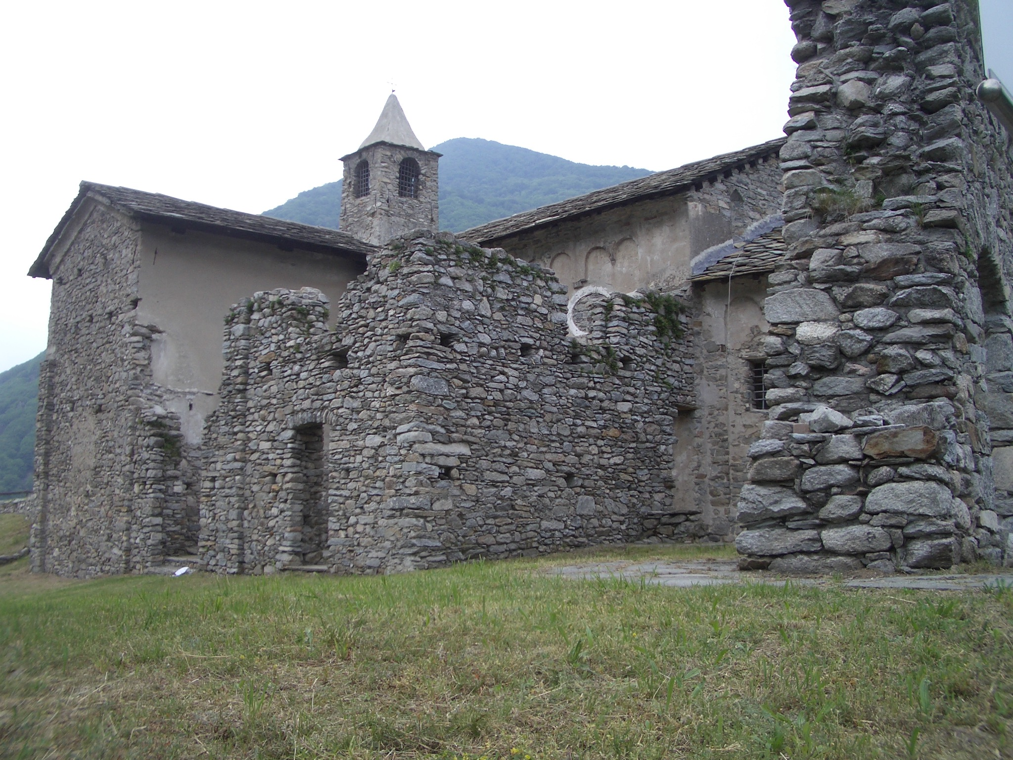 Ruins of the so called ‘’Rocca di Arduino’’ , Sparone (Torino)